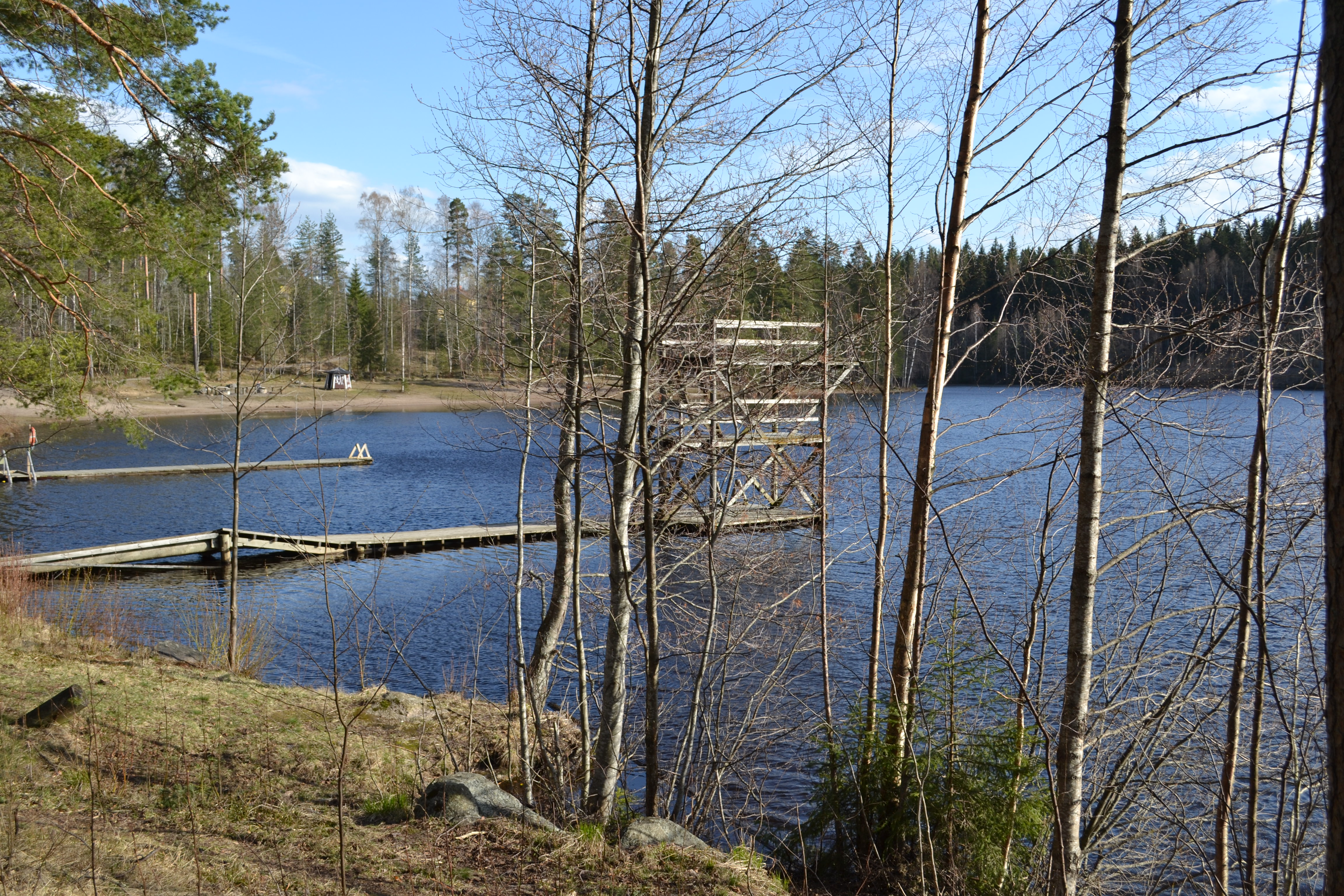 Lake Köhniönjärvi in Kypärämäki, Jyväskylä